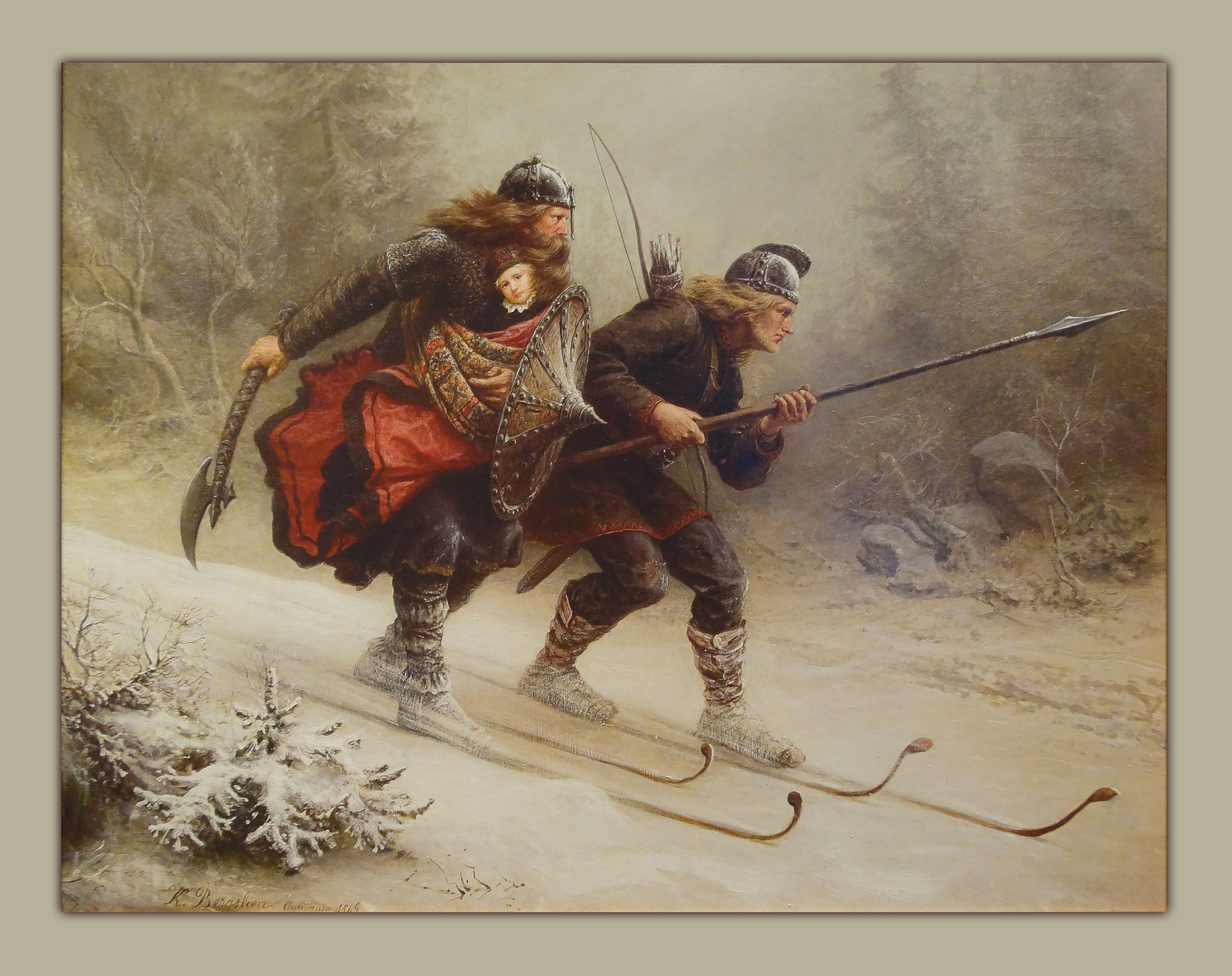 Depiction of Birkebeiner skiers carrying Prince Haakon to safety during the winter of 1206 has become a national Norwegian icon. The prince grew up to be King Haakon IV whose reign marked the end of the period known as the Civil war era in Norway, foto©: O. Væring Eftf. AS”Oslo/Norway